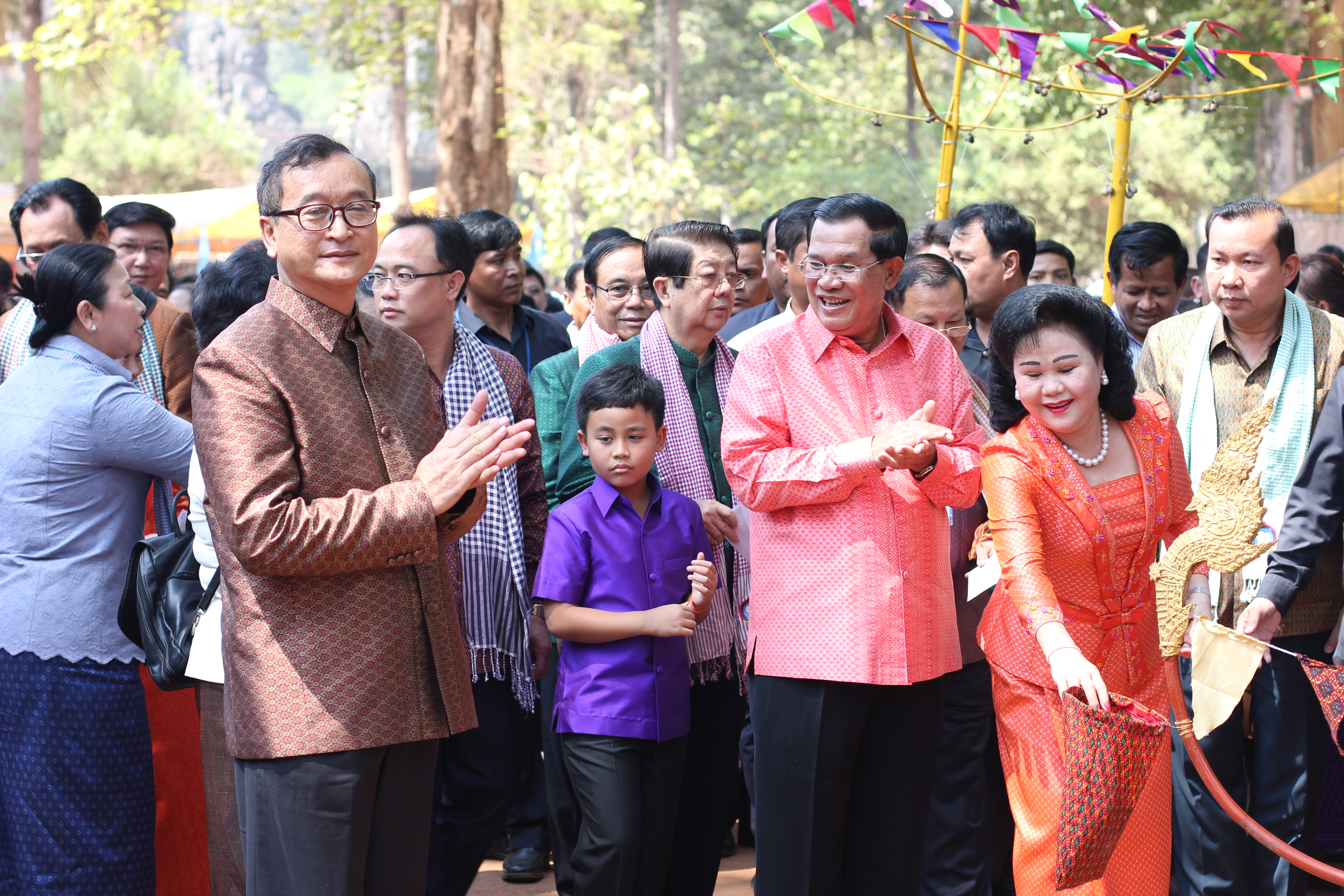 Prime Minister Hun Sen and the then-leader of the opposition, Sam Rainsy, initiate "Culture of Dialogue" to reconcile their differences after the 2013 general elections in Cambodia.